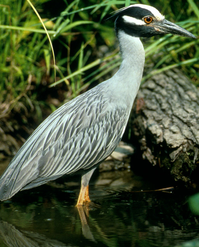 Yellow-crowned Night-Heron (Nyctanassa violacea)